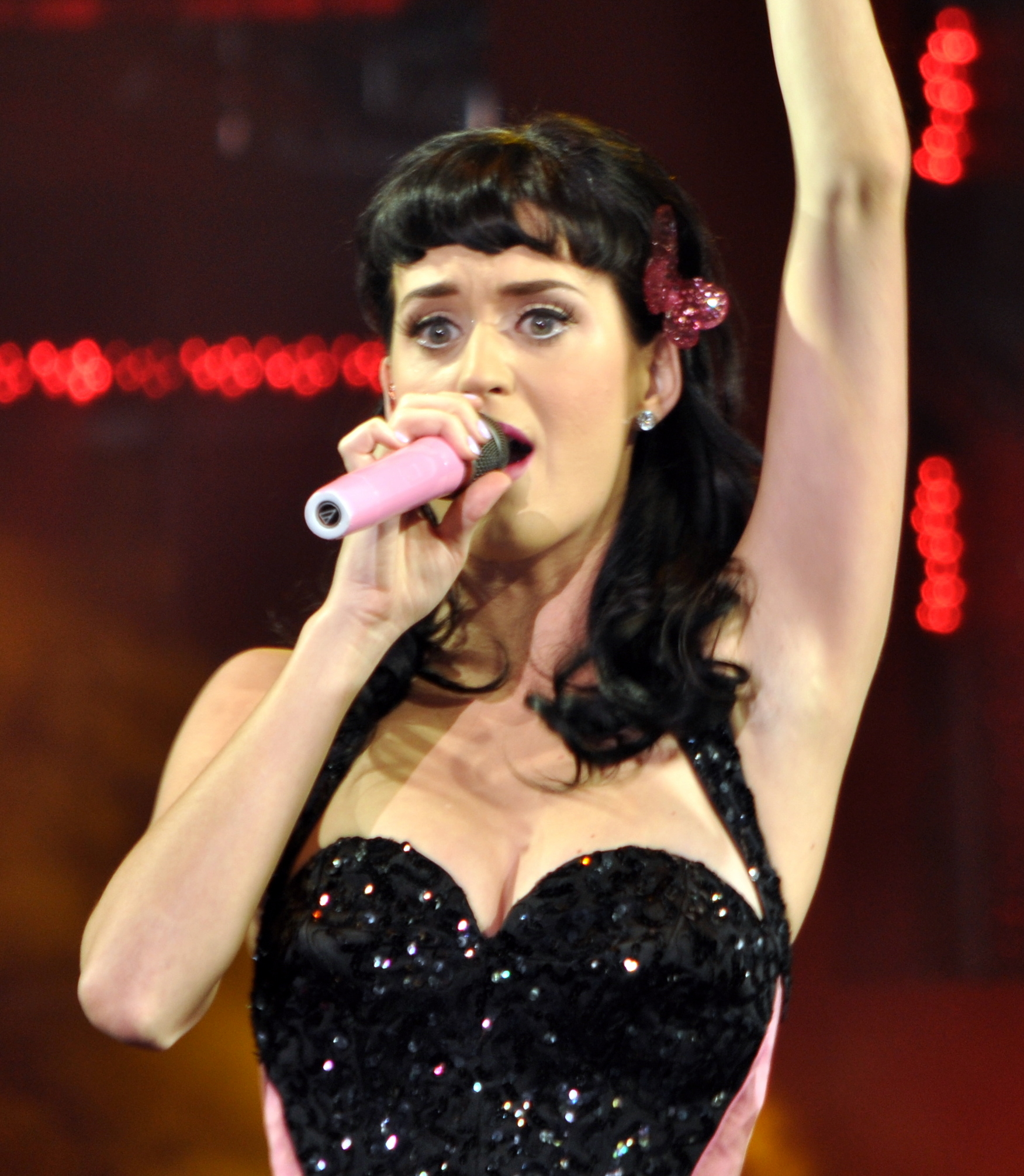 Katy Perry at YouTube Live 2008.